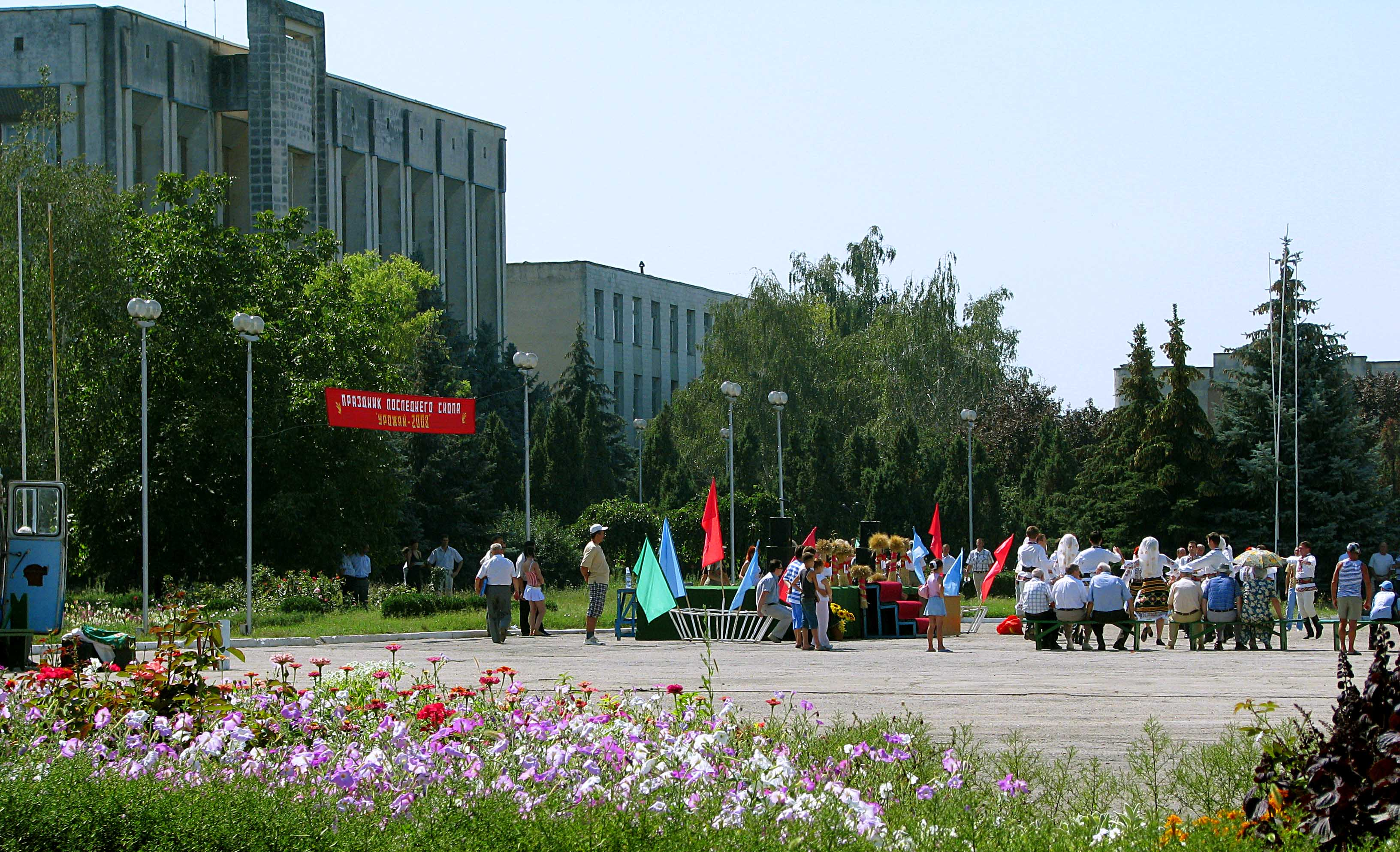 Площадь_Победы